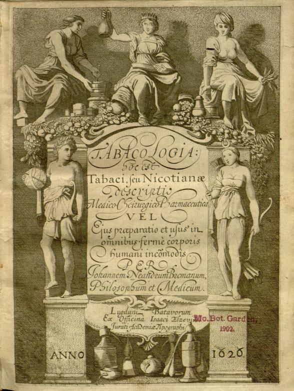 Engraved title page Rare Books Keywords: Literature; Tobacco